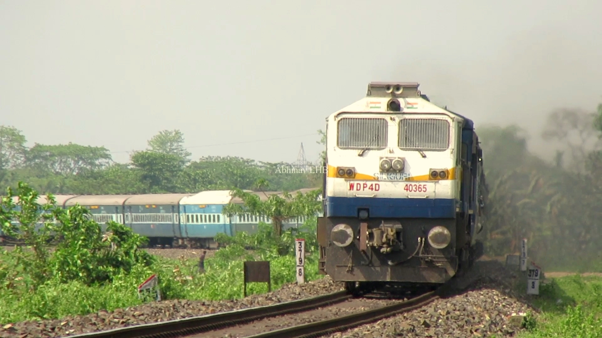 SGUJ dual-cab #EMD: #WDP4D #40365 of DLS Siliguri hauling 15654 Jammu Tawi - Guwahati #AMARNATH_EXPRESS, please do watch the video: The train was hitting 110 km/hr !!